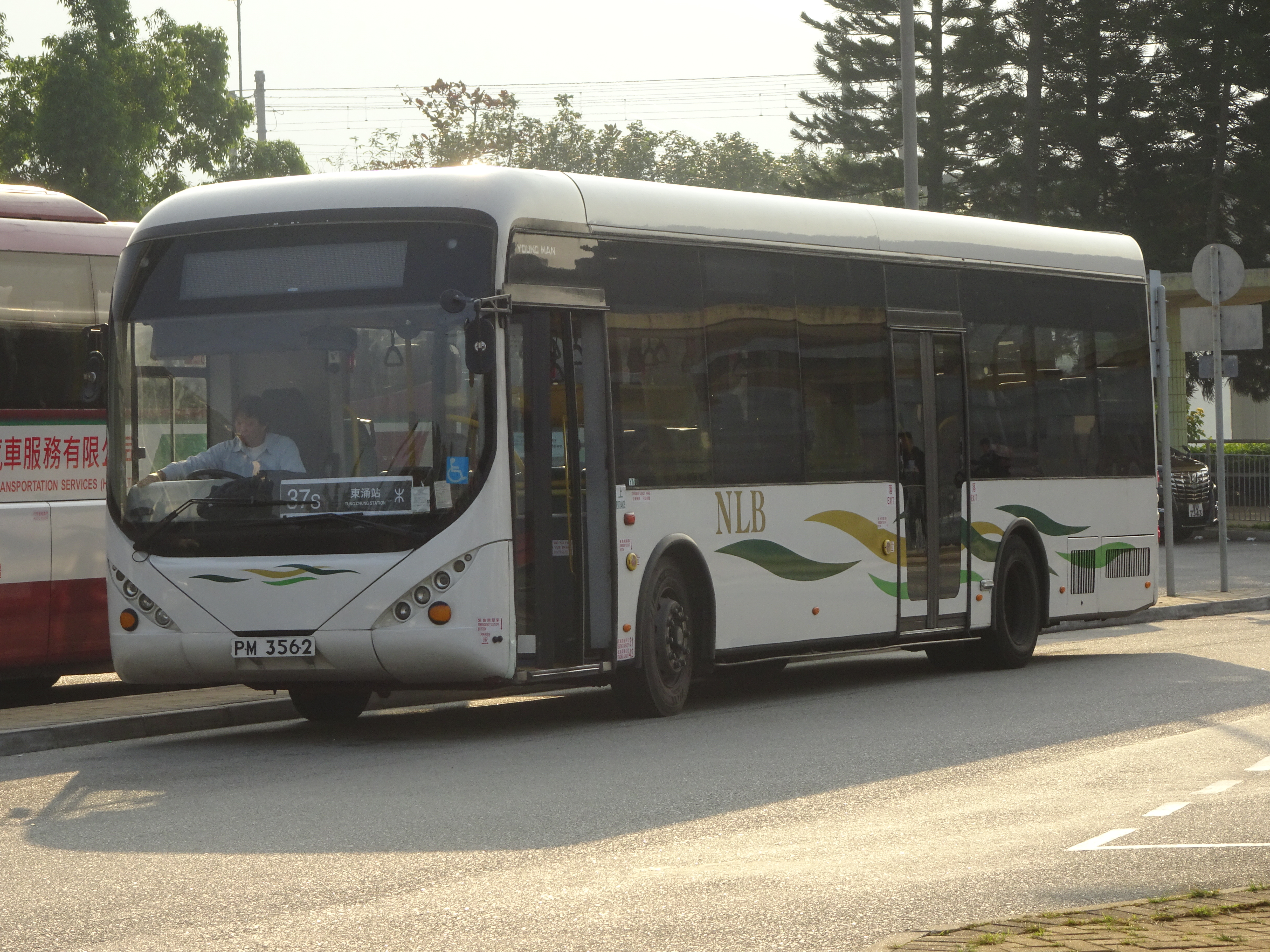 NLB Route 37S (Tung Chung Waterfront Road)